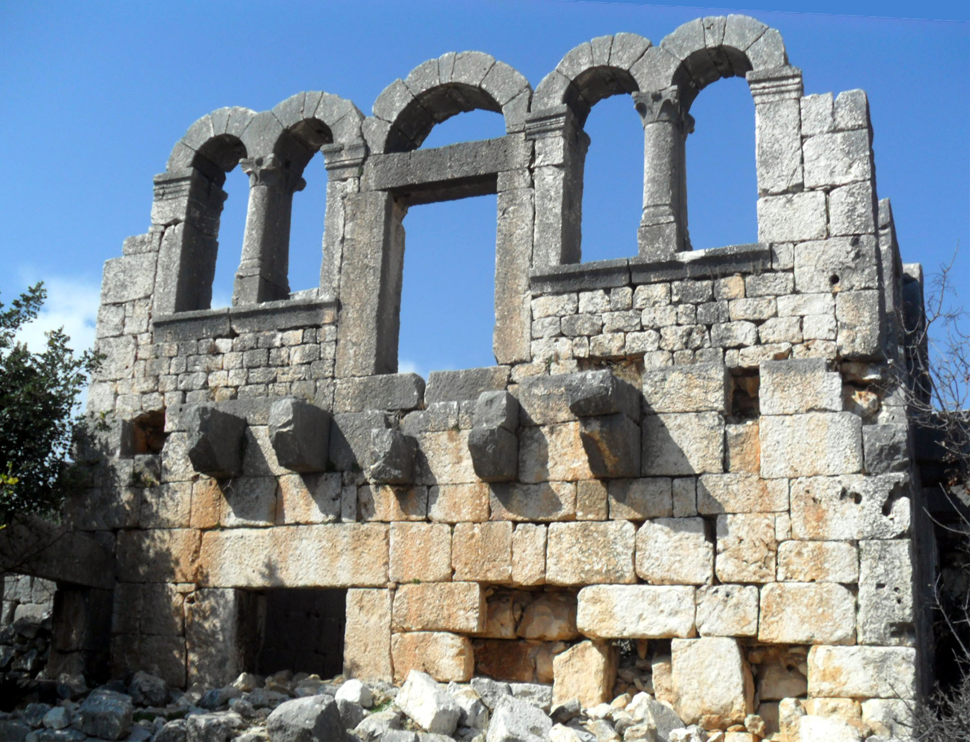 Karakabaklı ruins, Mersin Province, Turkey